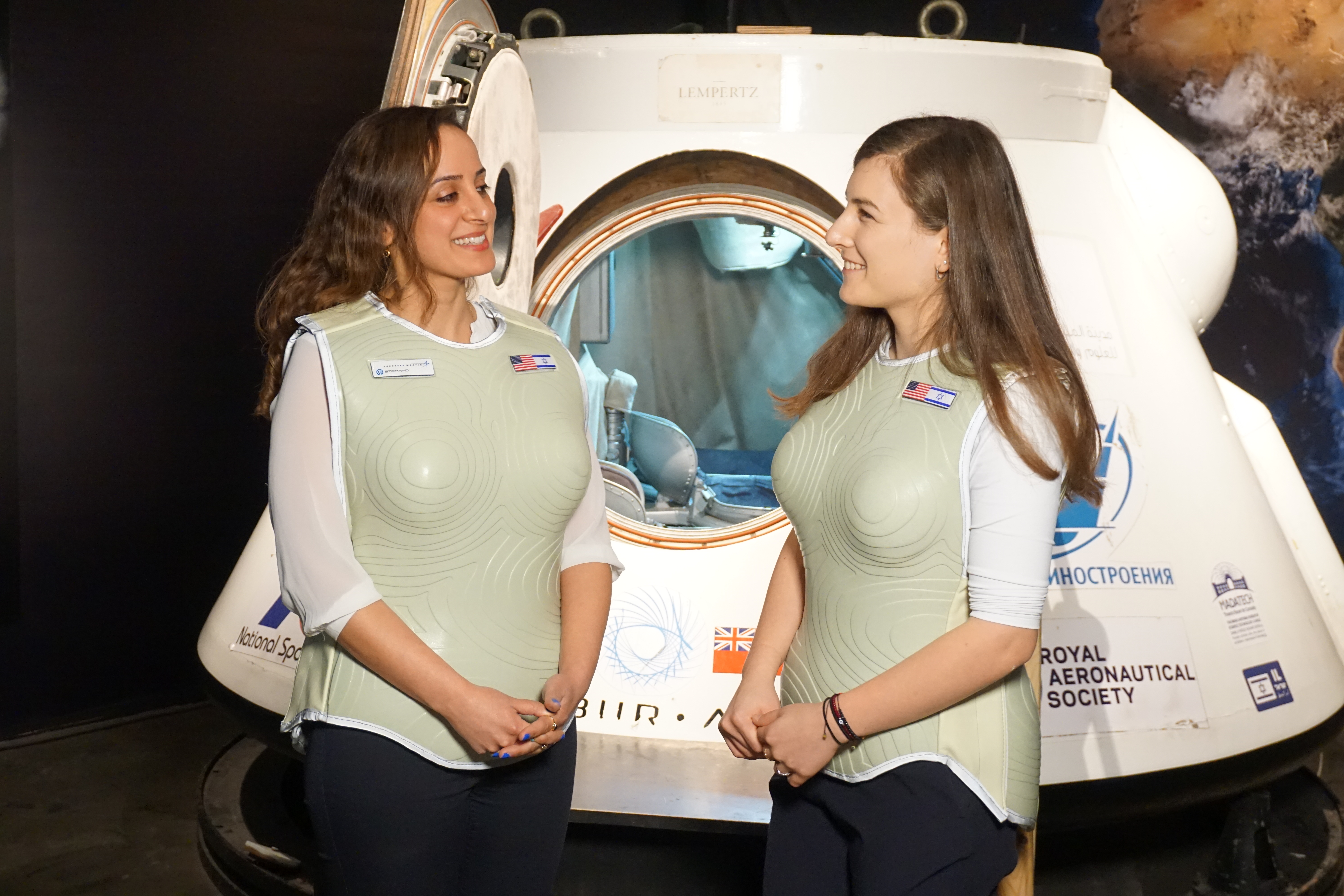 AstroRad Vest